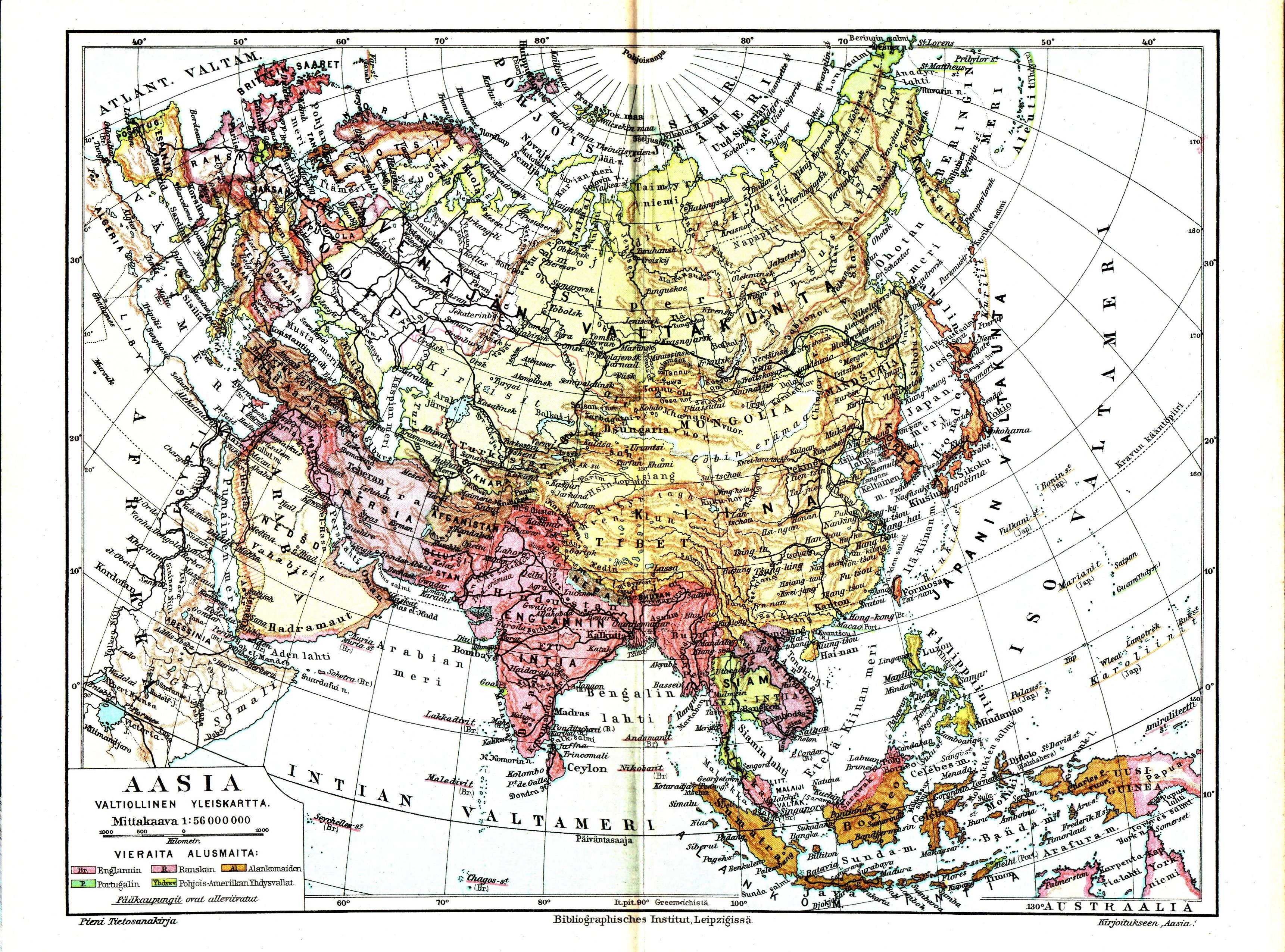 Map of Asia with Finnish text